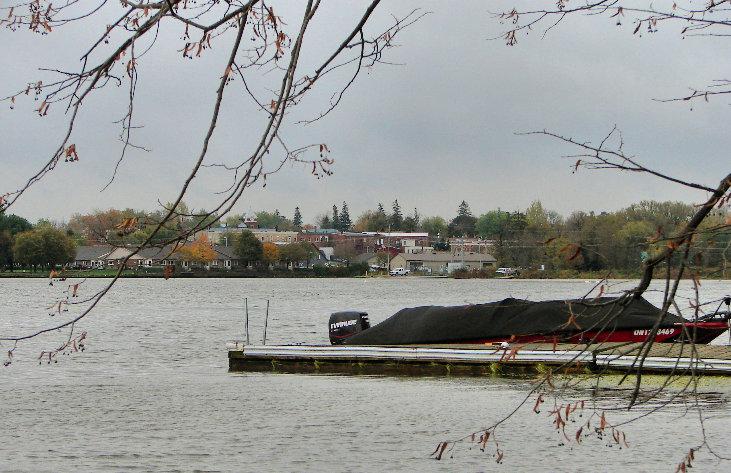 Port Perry seen across Lake Scugog, Ontario, Canada